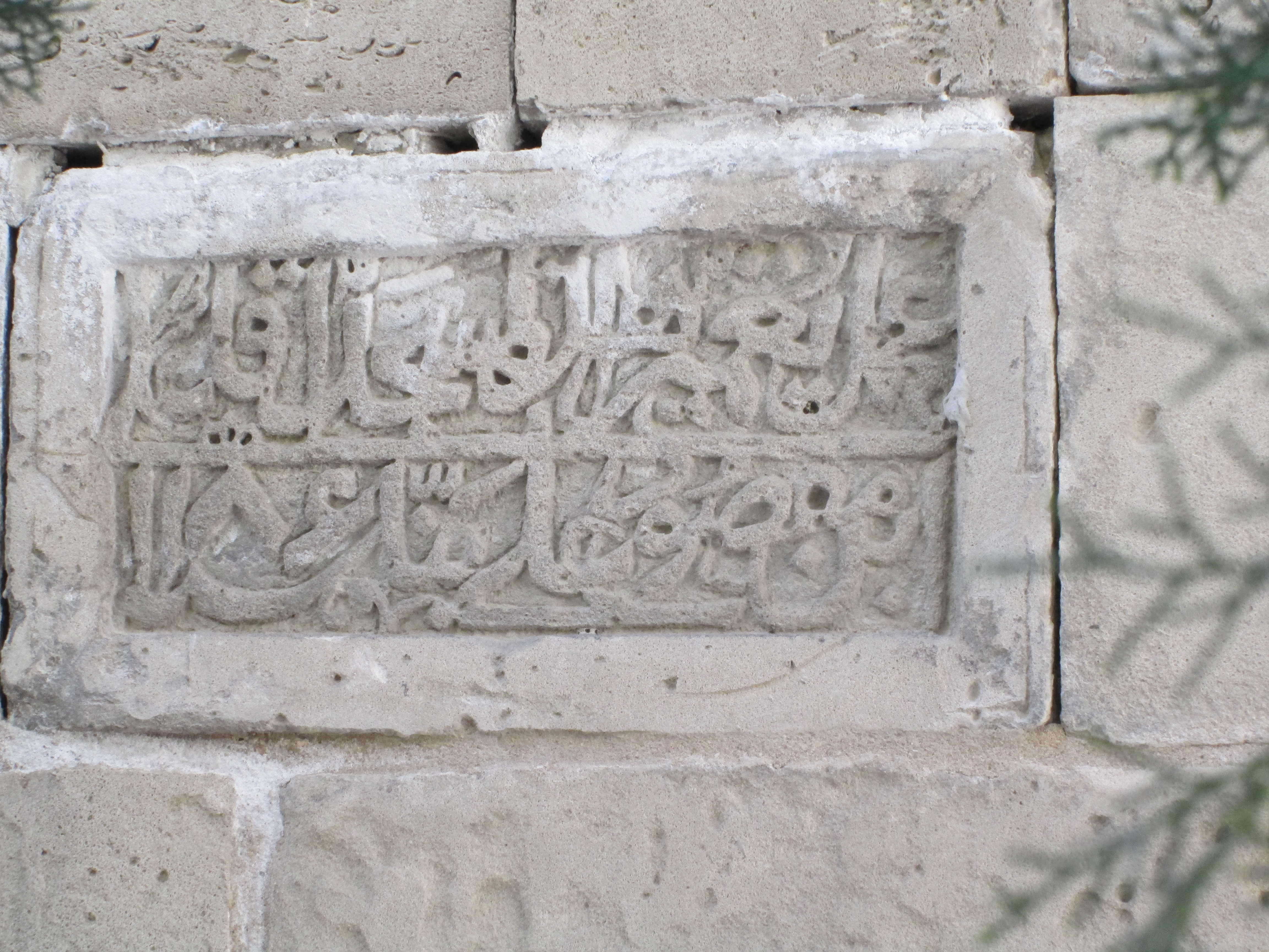 Inscription which is on the wall of the Chinese mosque in the Old City, Baku, Azerbaijan.